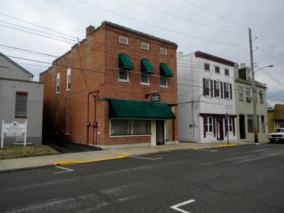 Tibbe Historic District